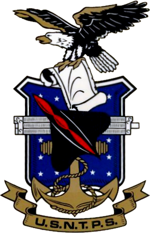 Emblem of the United States Naval Test Pilot School.